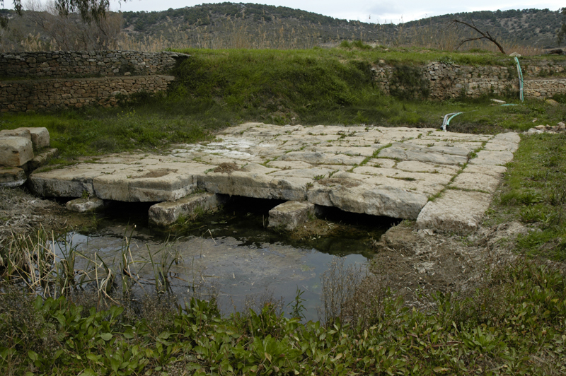 The Classical period stone bridge J. M. Harrington, personal digital image